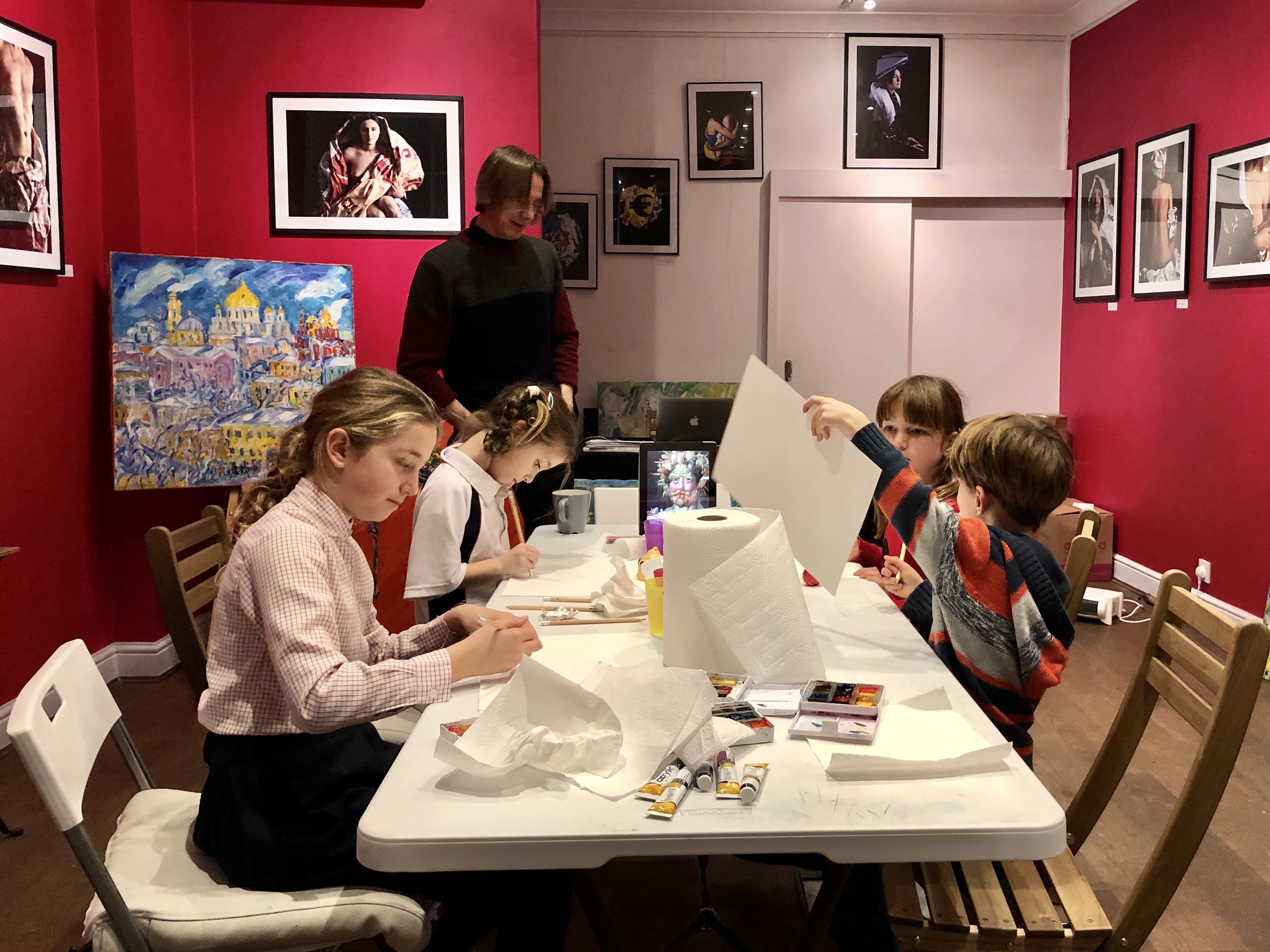 Painting practical sessions.